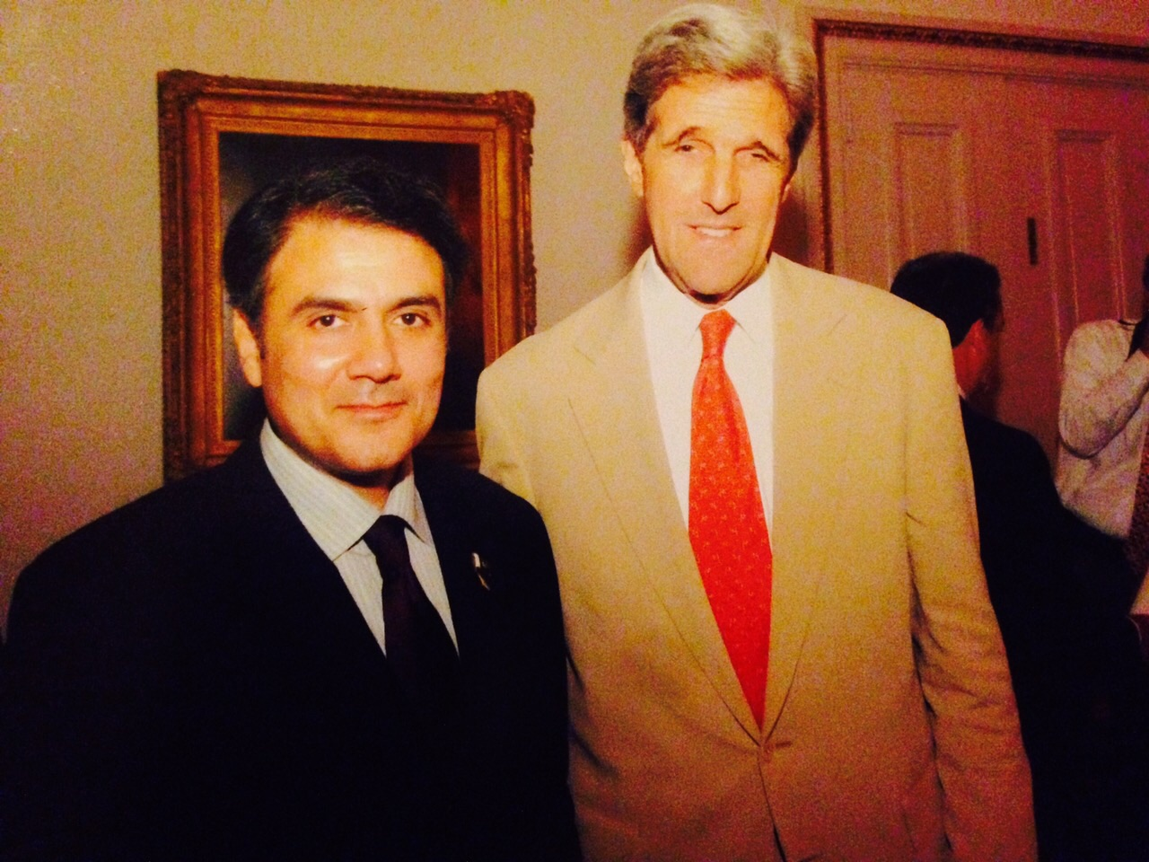 Zahid Bashir with senator John Kerry on an official tour to Washington DC.